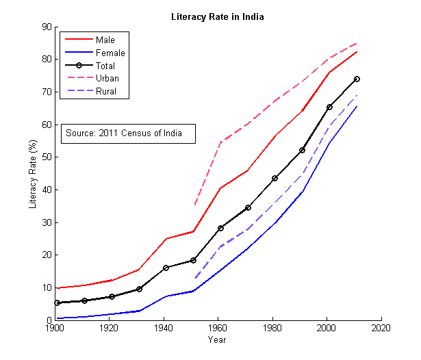 Graph of the net literacy rate (i.e. age 7-year+) in India in the hundred-year period 1901-2011. The data is based on the decadal census conducted in India in every year ending in 1 (i.e. xxx1). The raw data is - Rural Urban Total Male Female Total Male Female Total Male Female Total 1901 9.8 0.6 5.3 1911 10.6 1 5.9 1921 12.2 1.8 7.2 1931 15.6 2.8 9.5 1941 24.9 7.3 16.1 1951 19.02 4.87 12.1 45.6 22.33 34.59 27.16 8.86 18.33 1961 34.3 10.1 22.5 66 40.5 54.4 40.4 15.35 28.3 1971 48.6 15.5 27.9 69.8 48.8 60.2 45.96 21.97 34.45 1981 49.6 21.7 36.1 76.7 56.3 67.2 56.38 29.76 43.57 1991 57.9 30.6 44.7 81.1 64 73.1 64.13 39.29 52.21 2001 71.4 46.7 59.4 86.7 73.2 80.3 75.85 54.16 65.38 2011 78.57 58.57 68.91 89.67 79.92 84.98 82.14 65.46 74.04